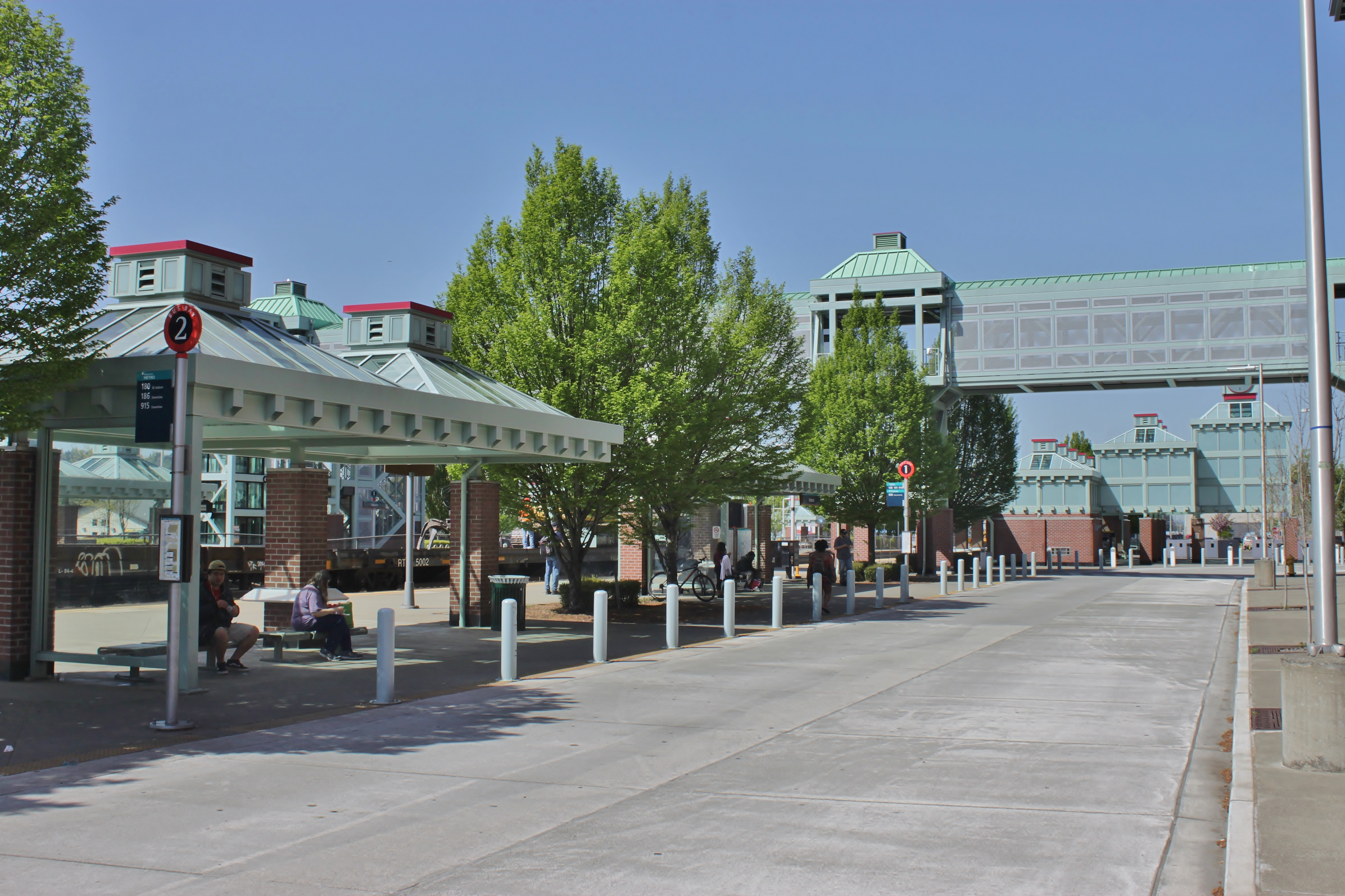 The bus bays and shelters at Auburn station in Auburn, Washington, US.